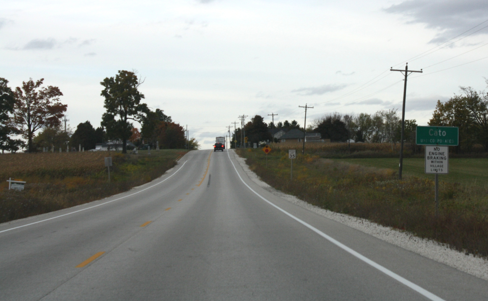 Looking north at the sign for Cato